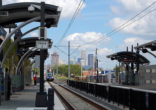 Looking North from the New Bern Station on the LYNX Blue Line light rail system in Charlotte, NC.